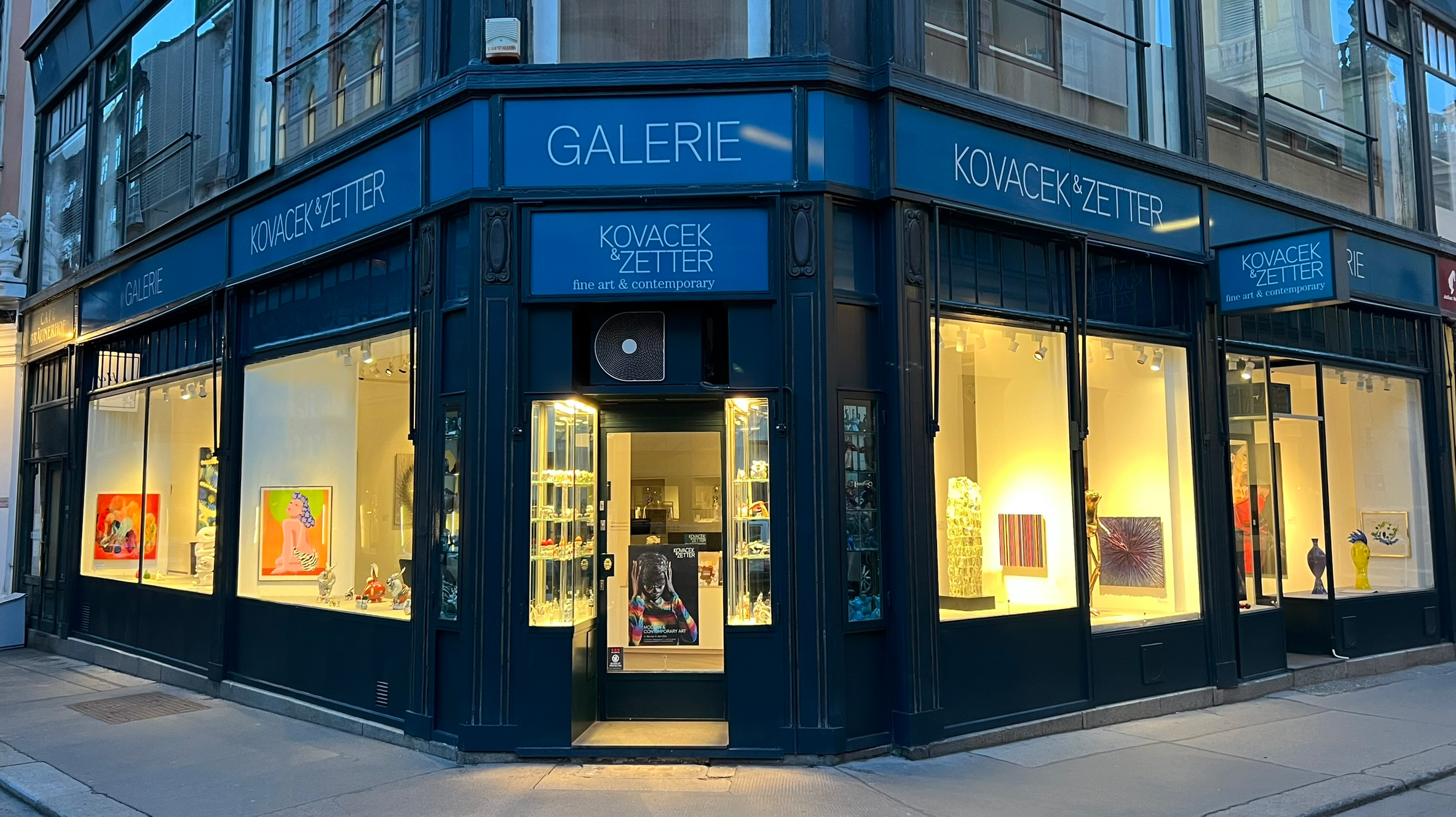 exterior of gallery